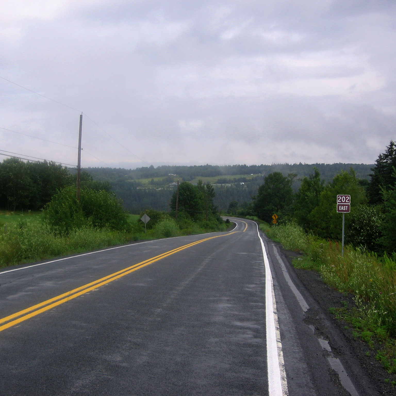 Photo of NS Route 202 in Hants County